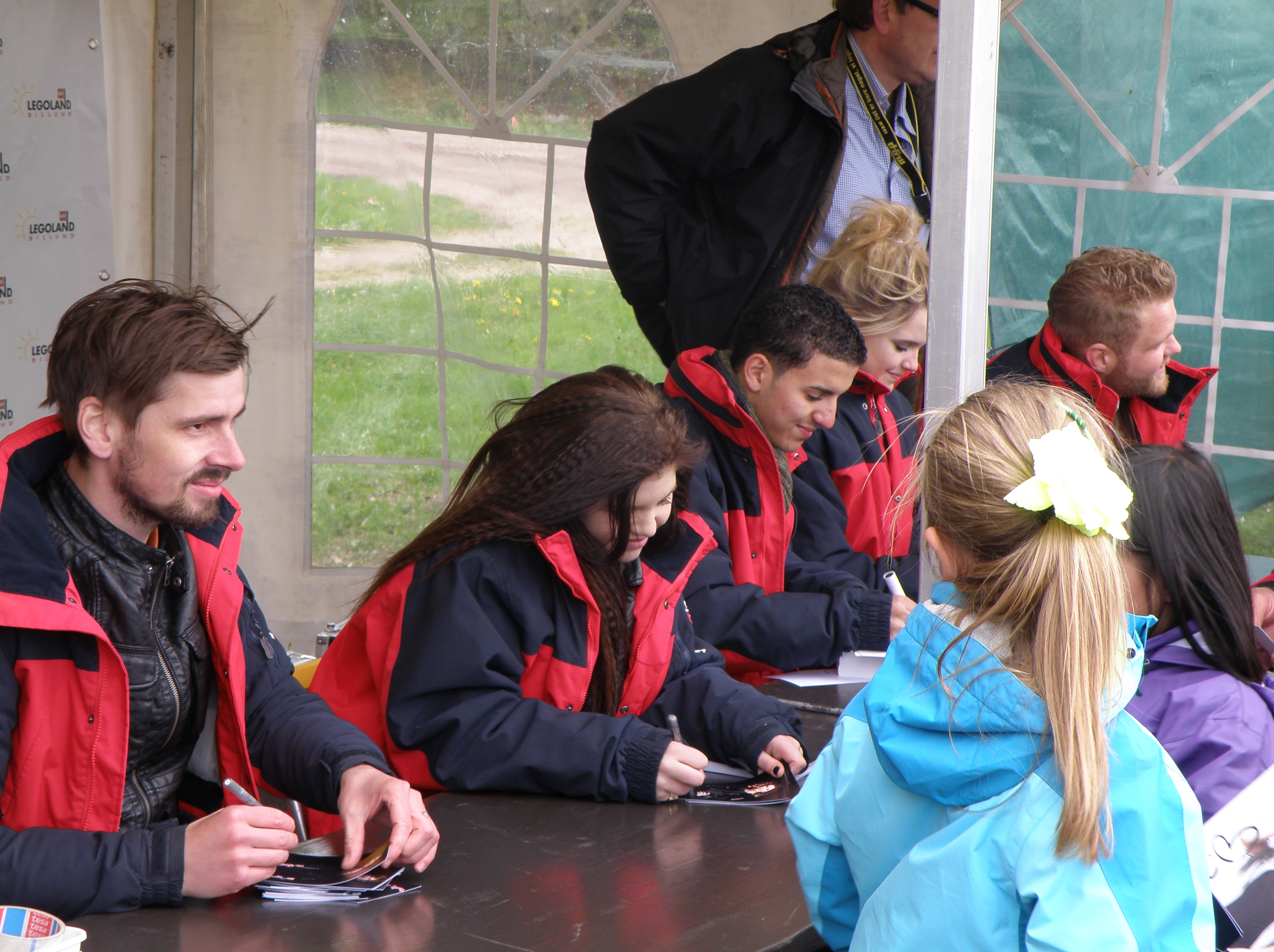 Here are four of the X Factor 2012 finalist from Denmark, Sveinur, Line, Ida and Morten Benjamin and one of the finalist from the 2008 X Factor Denmark, Basim (he is sitting in the middle between Line and Ida). This photo was taken in Legoland Billund just after the X Factor Concert which they performed. Here they are writing autographs for their fans.